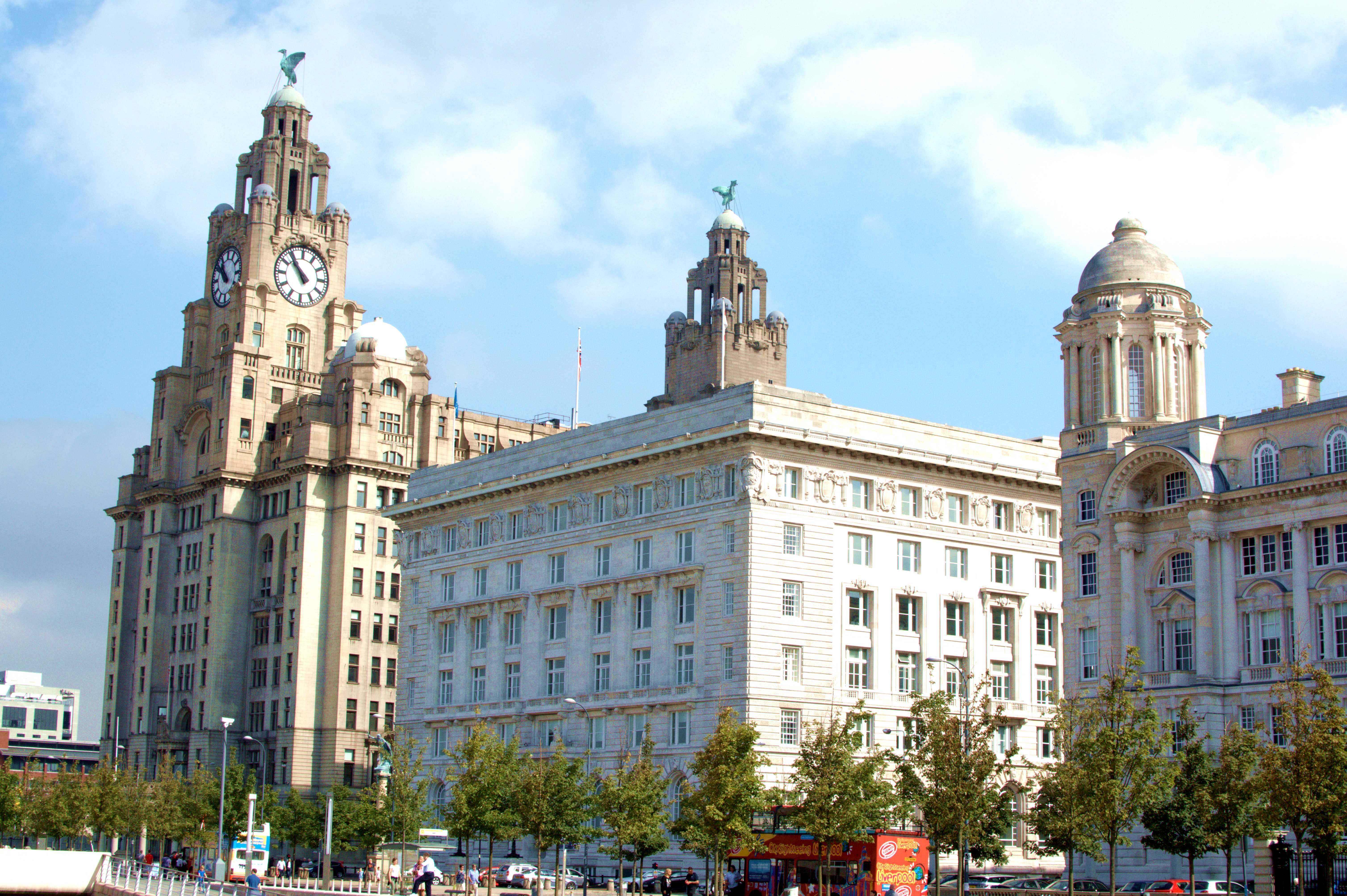 LIVERPOOL